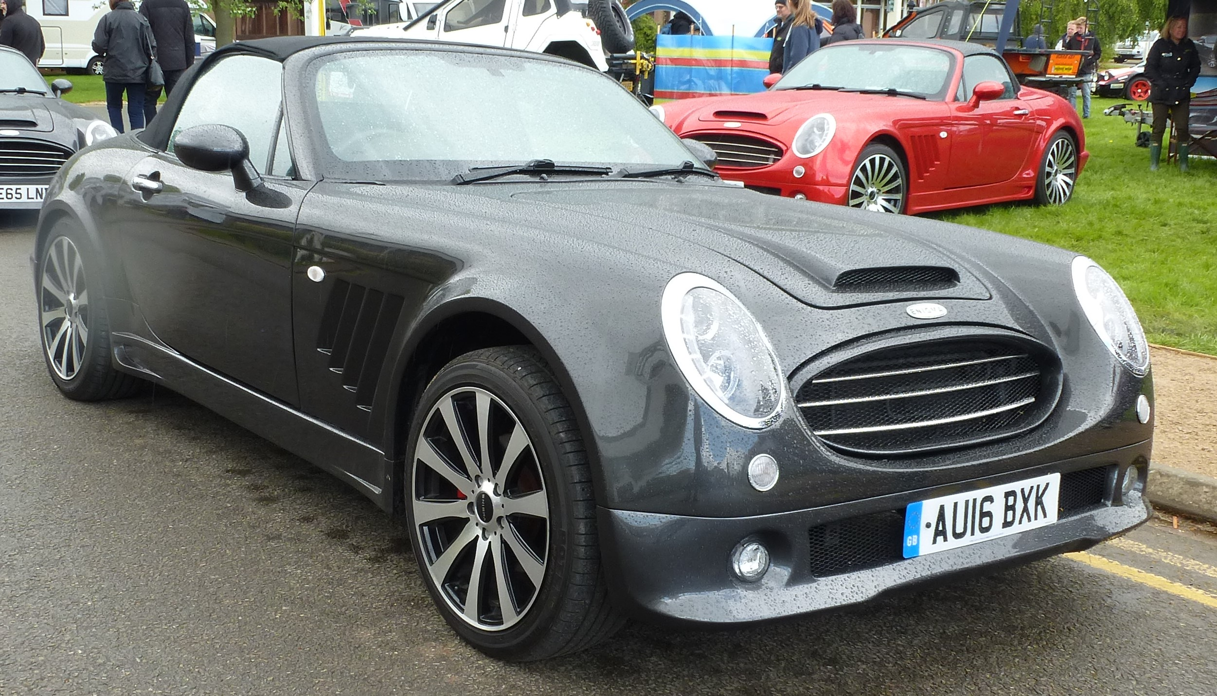 Healy Enigma